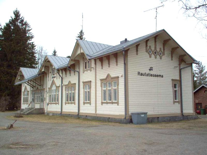 Ähtäri railway station, Finland, on Haapamäki–Seinäjoki line.